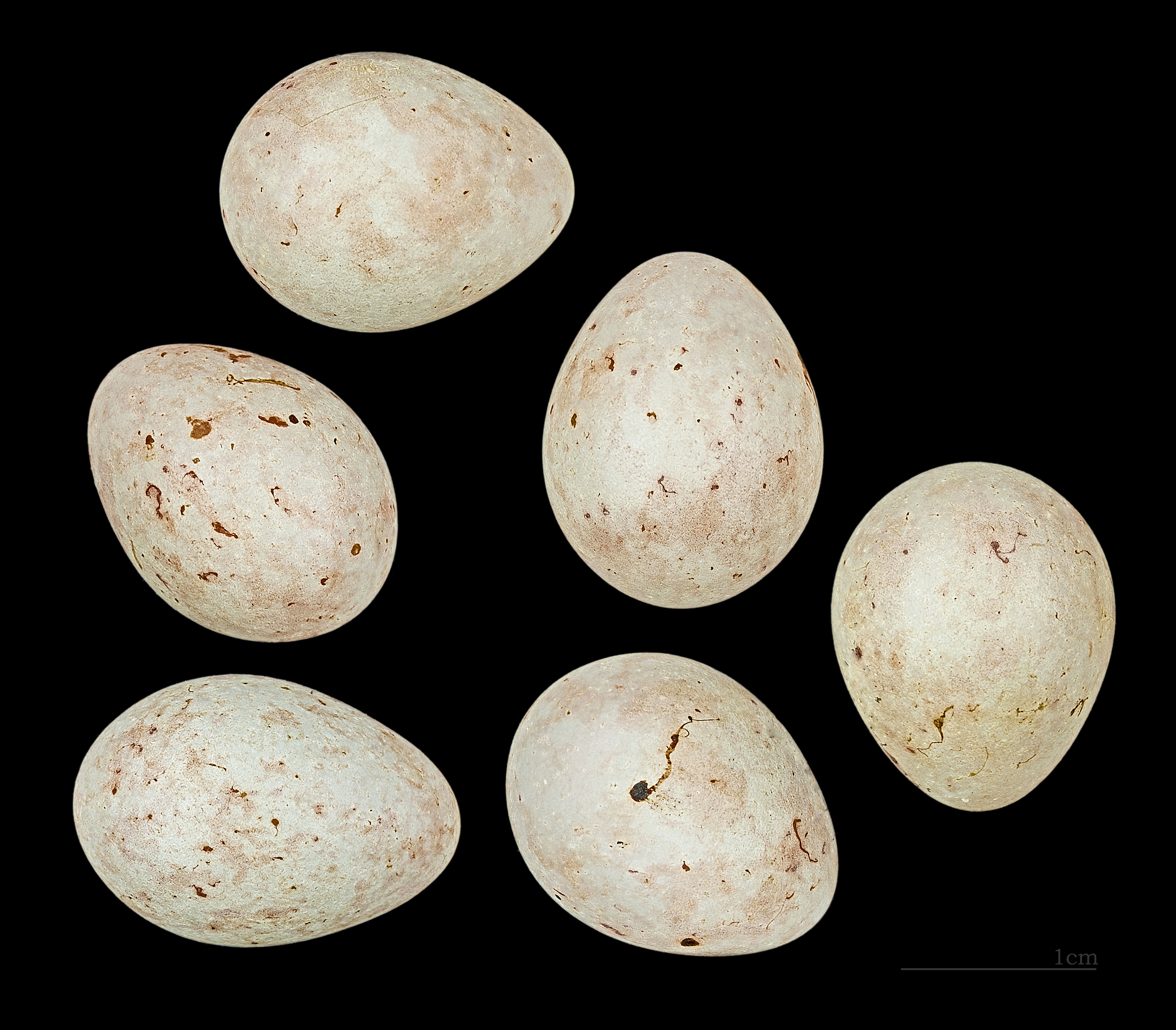 Egg of Brambling Collection of Jacques Perrin de Brichambaut